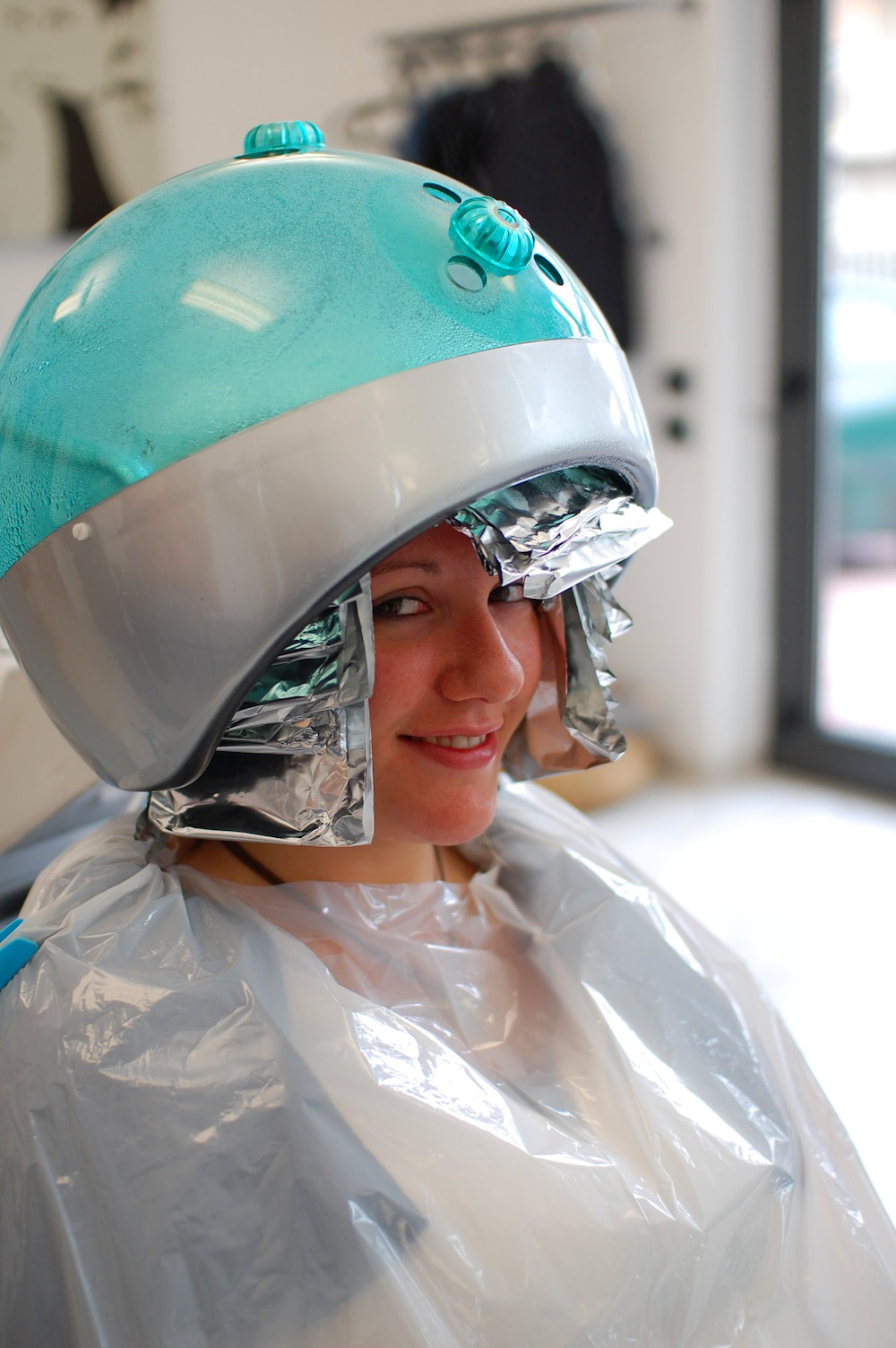 blow hair dryer